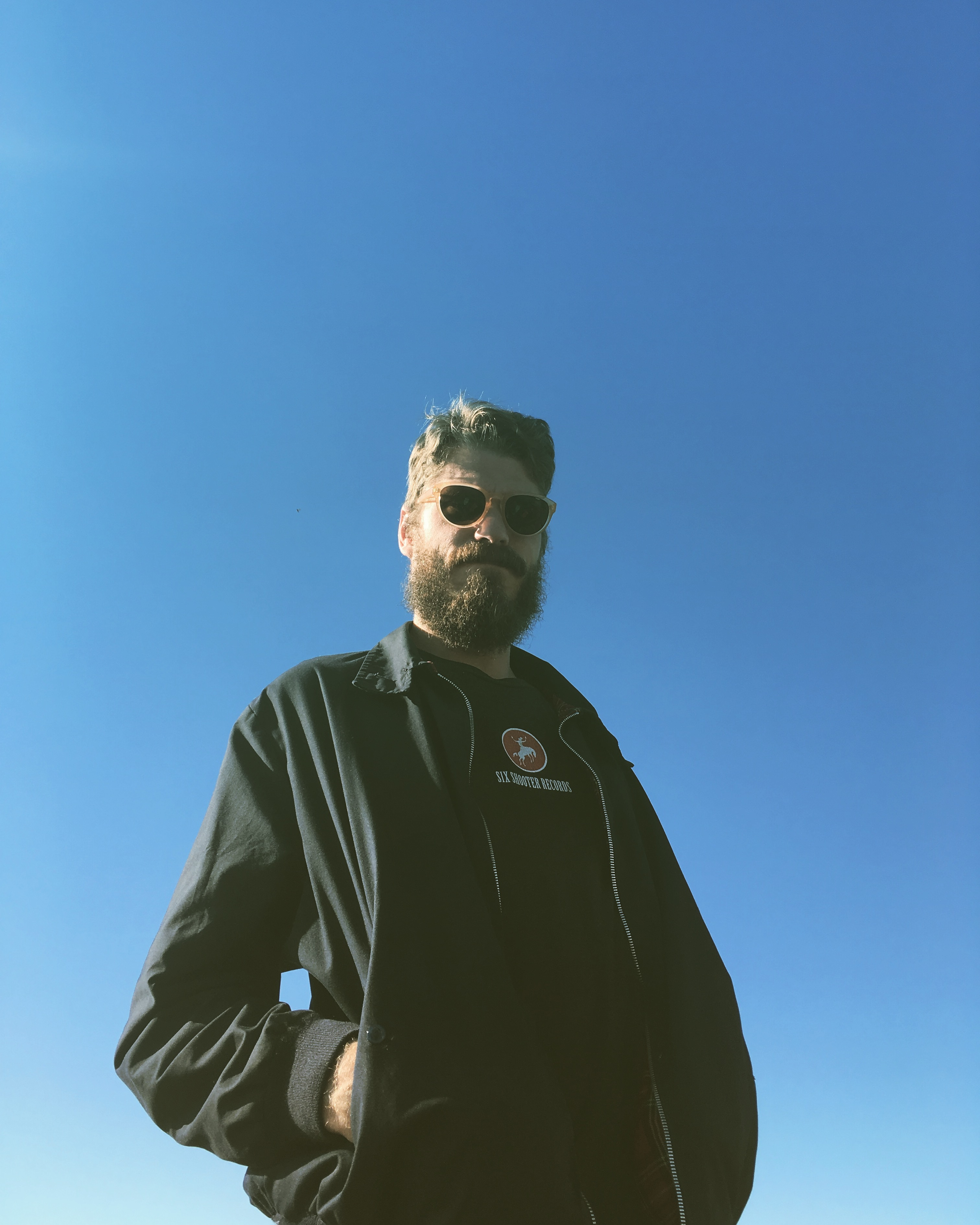 Photo of Ryan Boldt in Victoria.